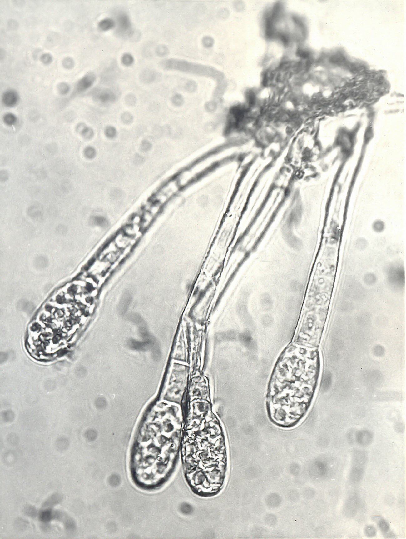 Conidiophores with conidia (oidii) of the fungus Uncinula necator cause of the disease ashtrays on vines. Conidia have a cylindrical shape and they are formed in arrays of conidiophores, and are released from the top down perform the infections during the vegetation.